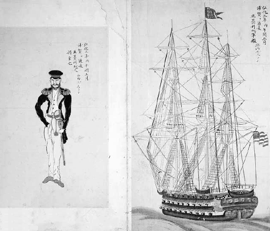 The USS Columbus (1819) and a crewman in Edo Bay in 1846.